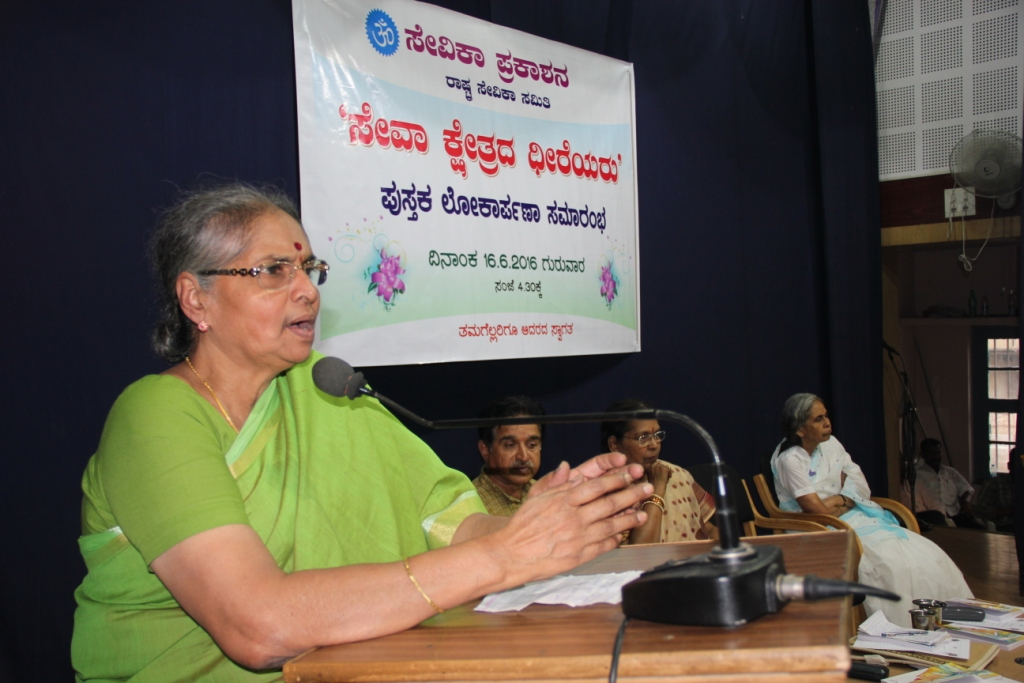 Rashtra Sevika Samiti Pramukh Sanchalika V Shantha Kumari Addressed after released Kannada book ‘Seva Kshetrada Dheereyaru’ in Bengaluru